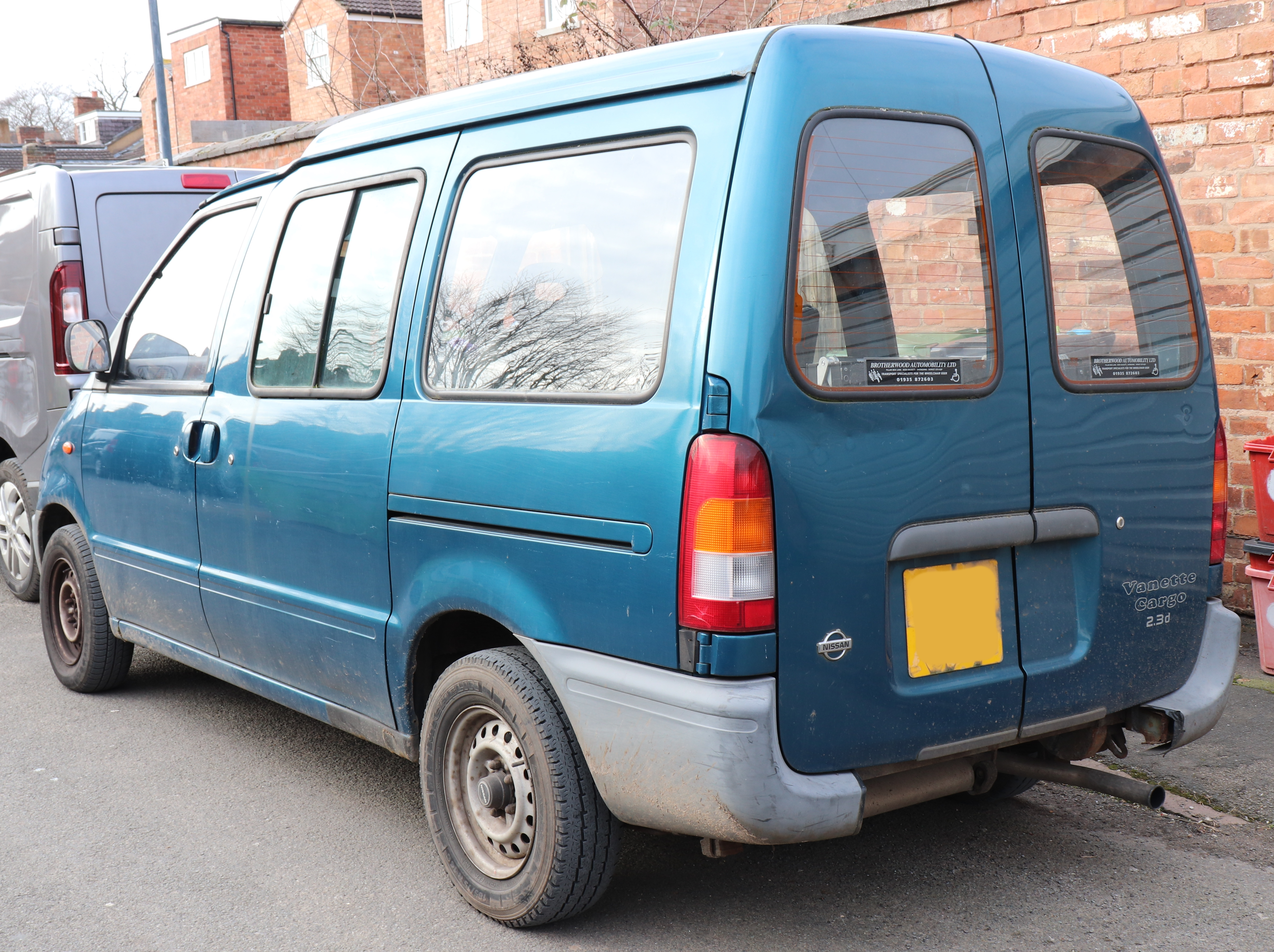 1995 Nissan Vanette Cargo Diesel 2.3 Rear Taken in Leamington Spa